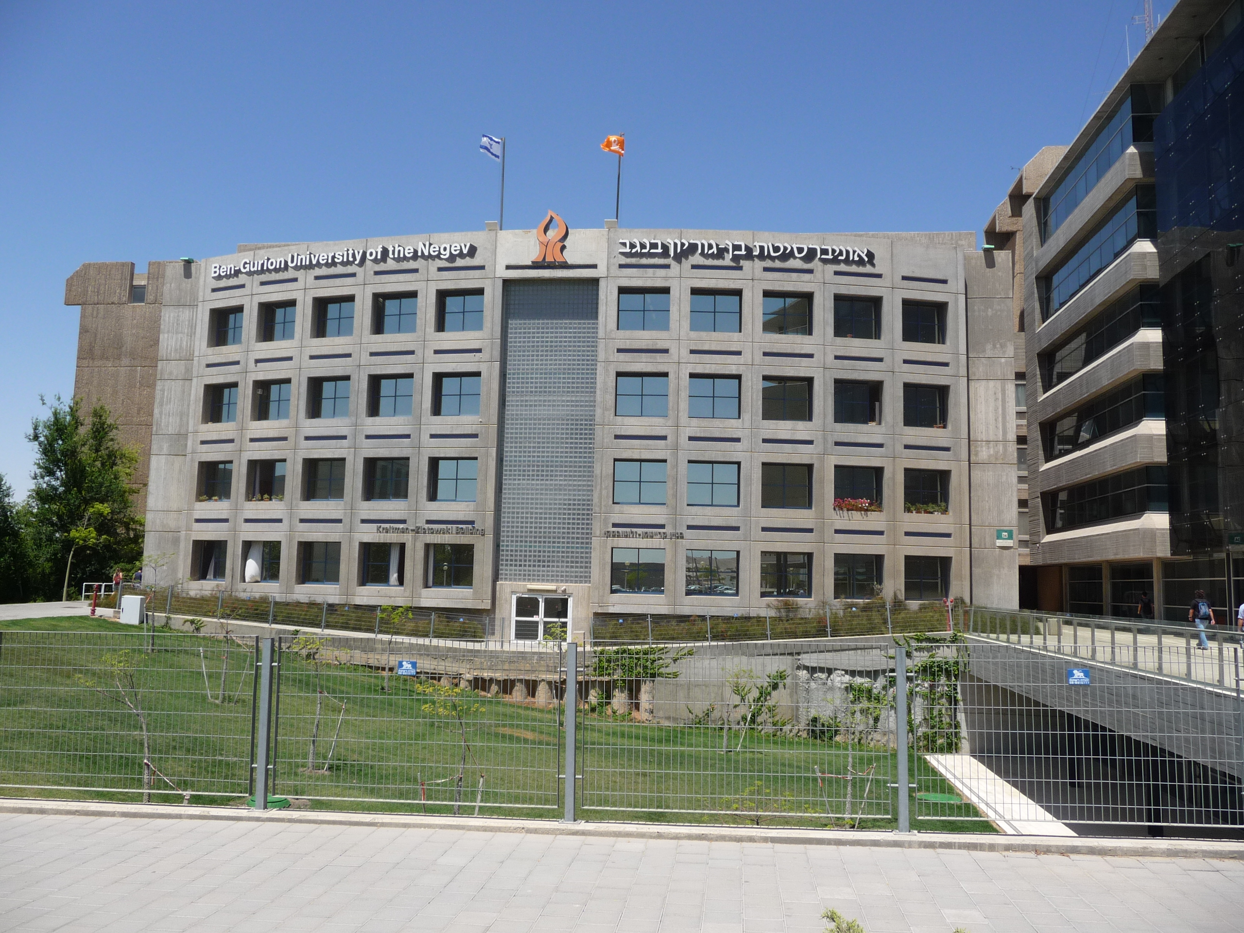 the Kreitman-Zlotovski building in Ben-Gurion University of the Negev.